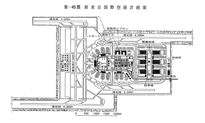 New Tokyo International Airport Plan